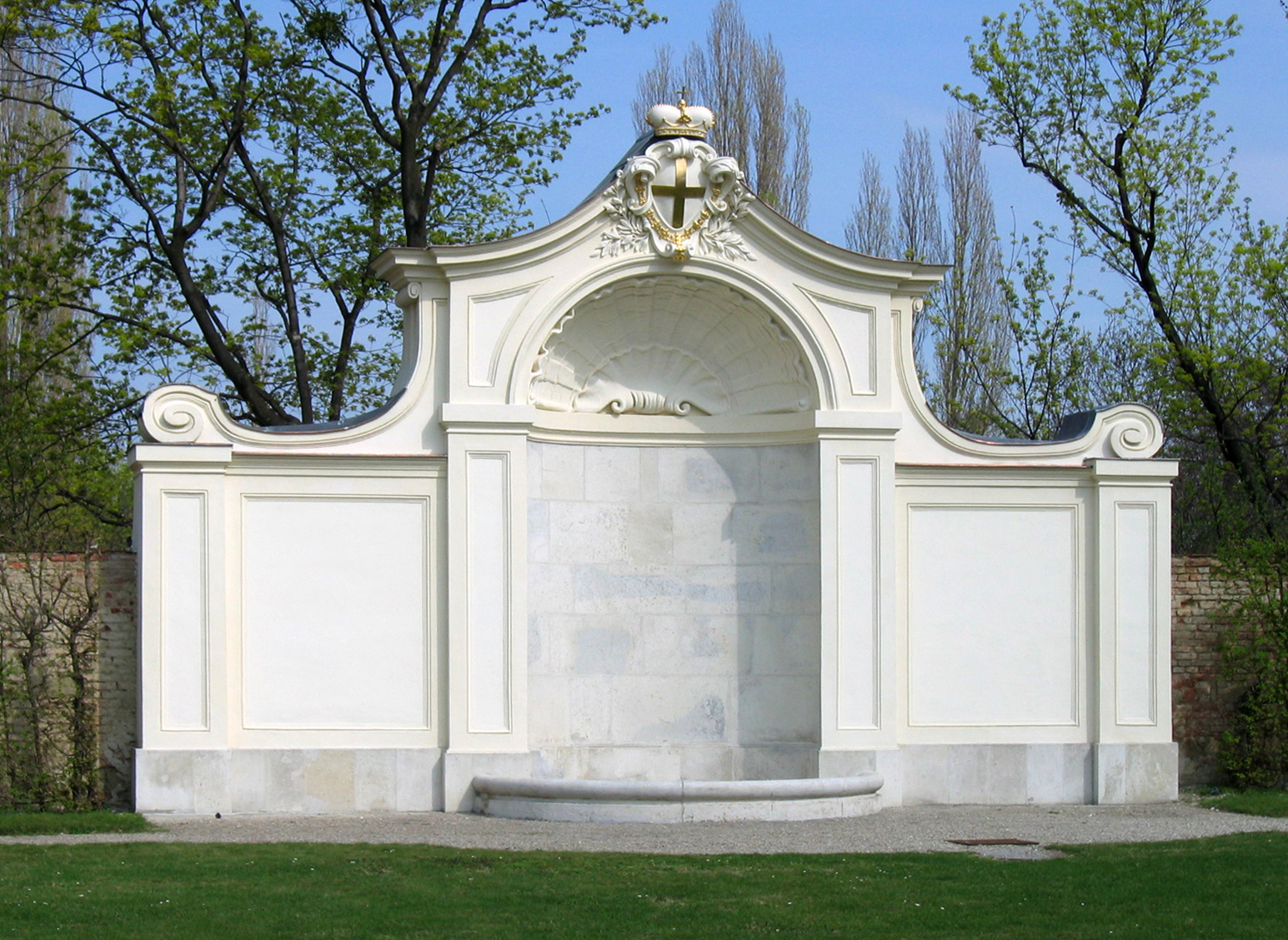 fountain in the peach-garden of the Upper Belvedere, Vienna, Austria